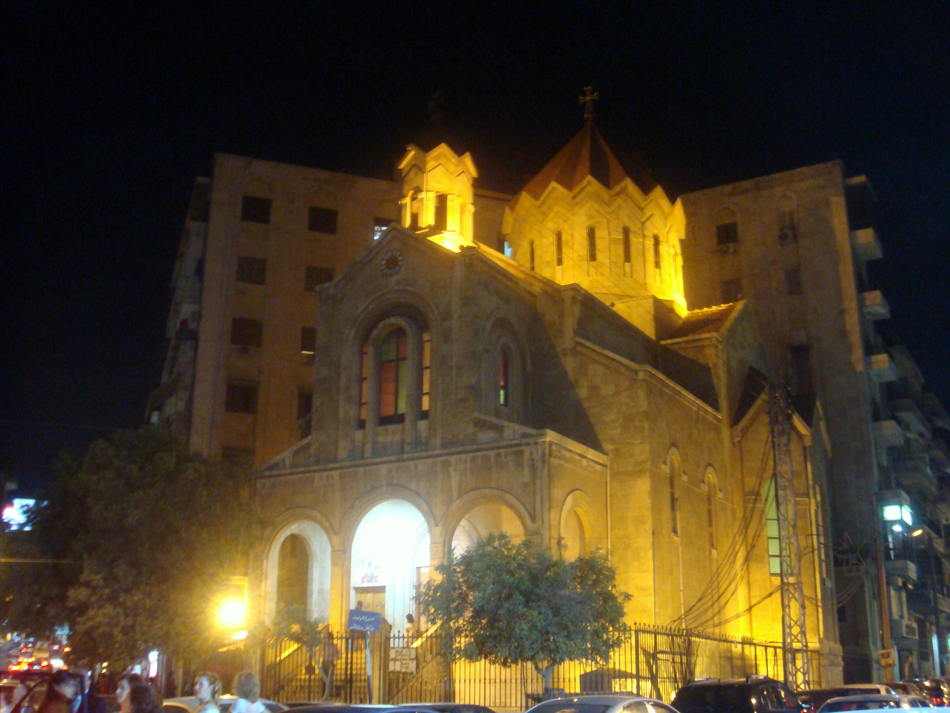 Surp Khach (holy Cross) Armenian Catholic church, Aleppo.